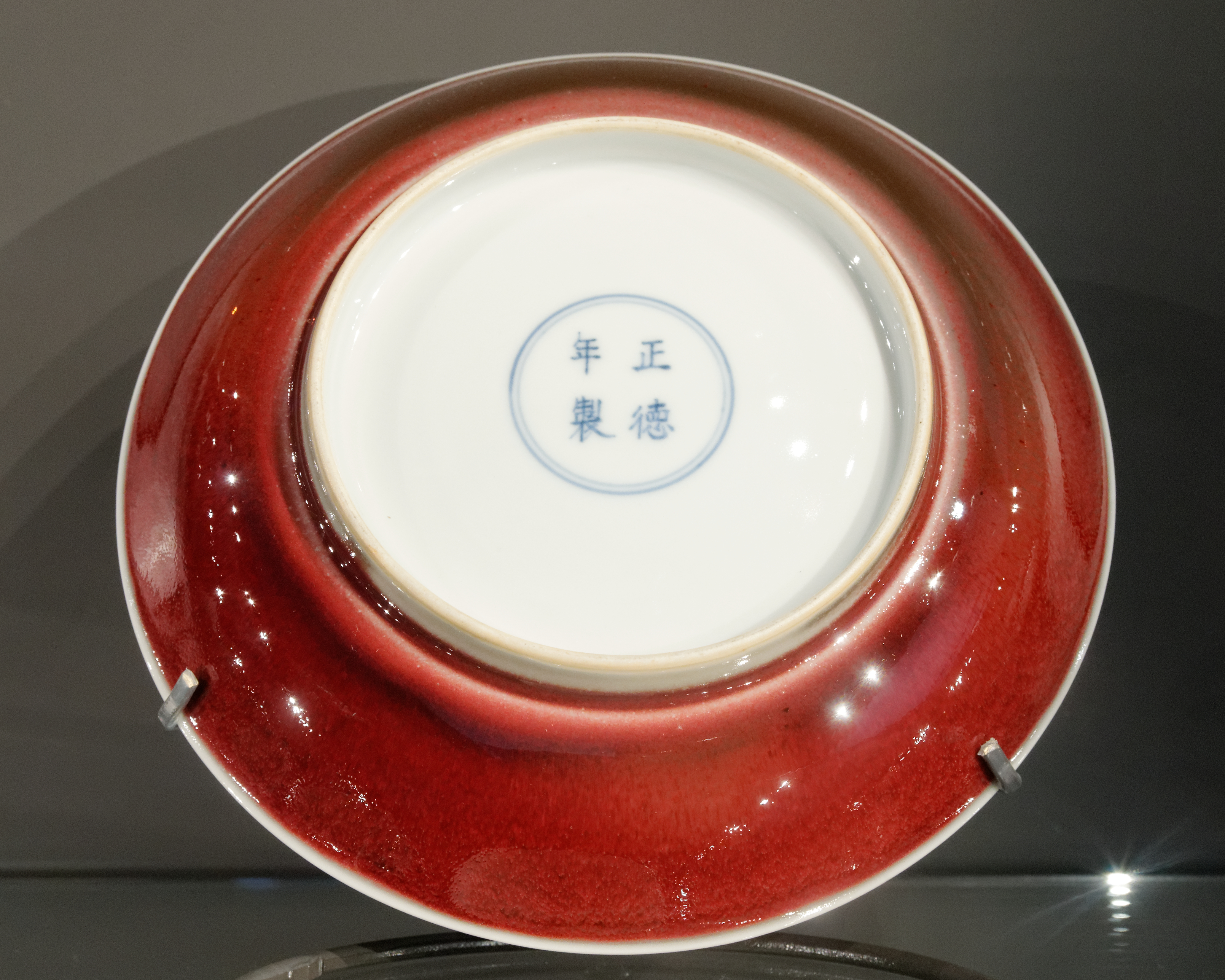 Dish with rounded sides and slightly everted rim, and a reign mark on the base.